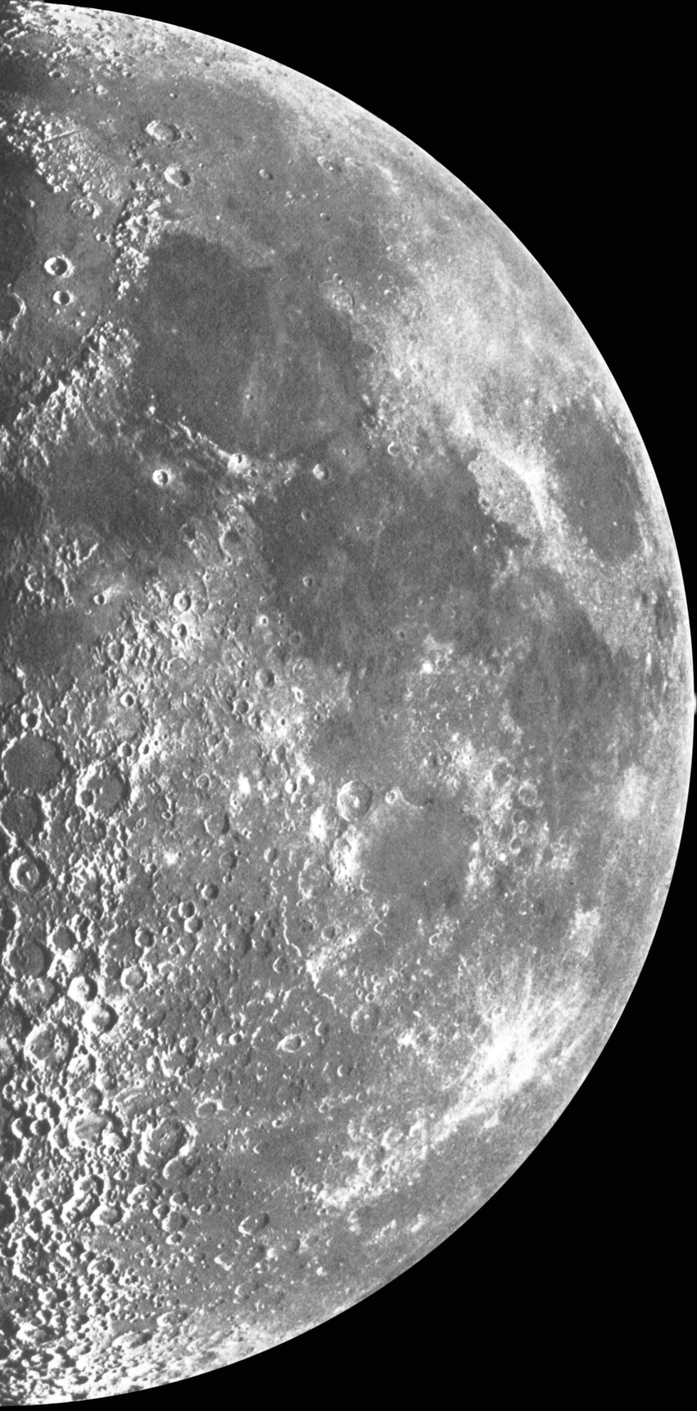 photo of a half moon, by Maurice Loewy (1833-1907) and Pierre Henri Puiseux (1855-1928), 1894